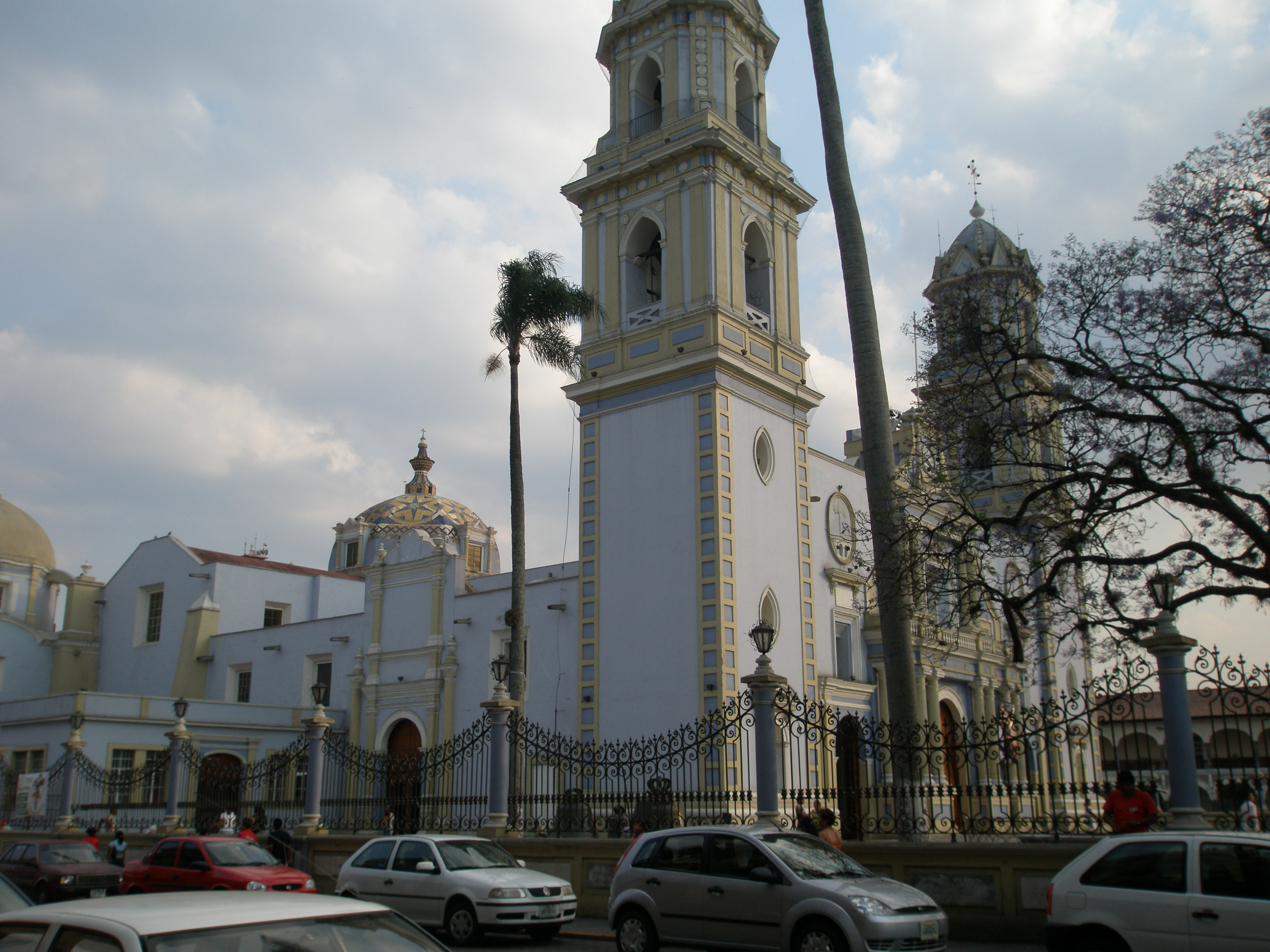 The cathedral in downtown Cordoba, Veracruz. Mexico.